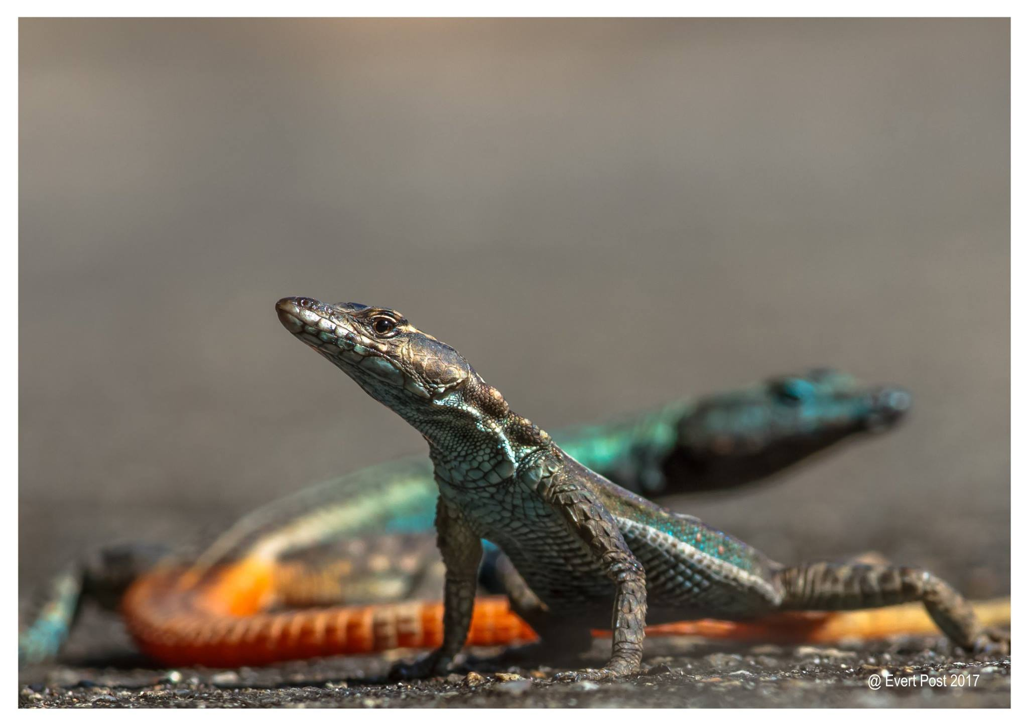 Platysaurus intermedius - Lowveld Botanical Gardens, Nelspruit, South Africa